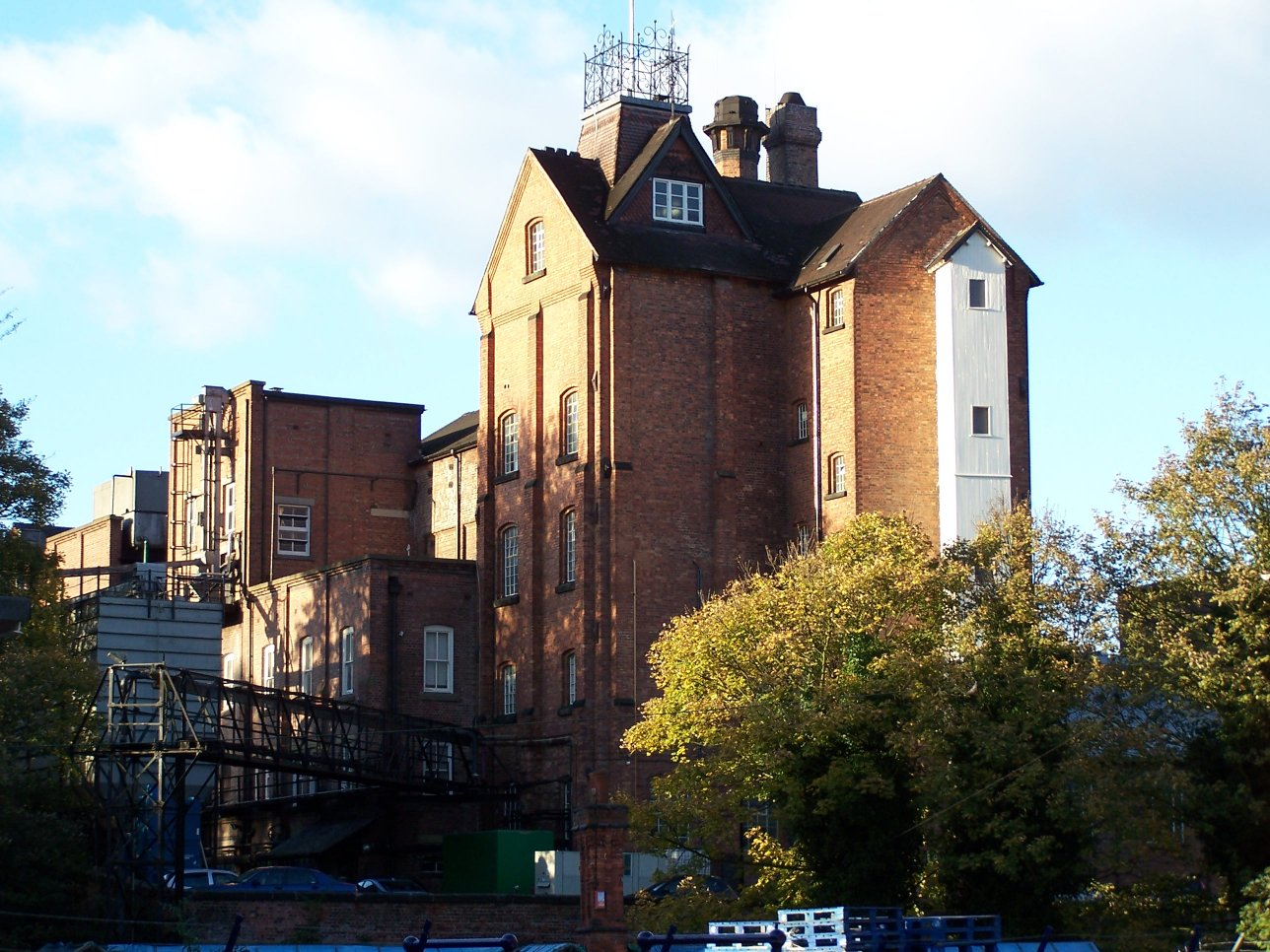 Former brewery, Hardy Street, Kimberley, Nottinghamshire: established 1832 and closed by Greene King in 2006.